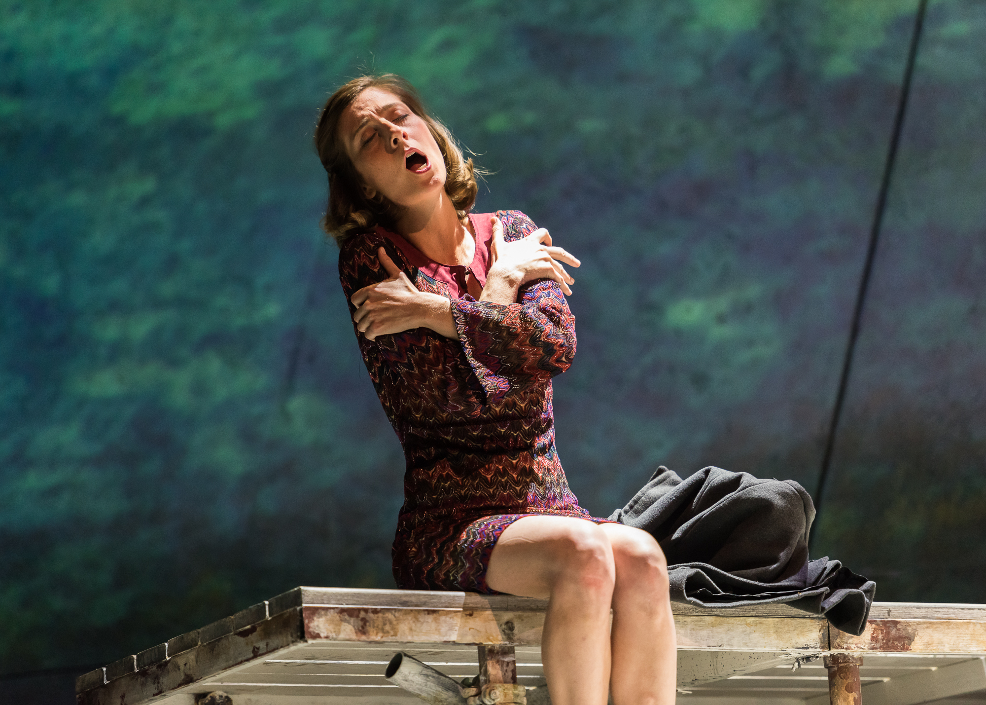 September 20, 2016 Kimmel Center Philadelphia, PA Photo by Steven Pisano.